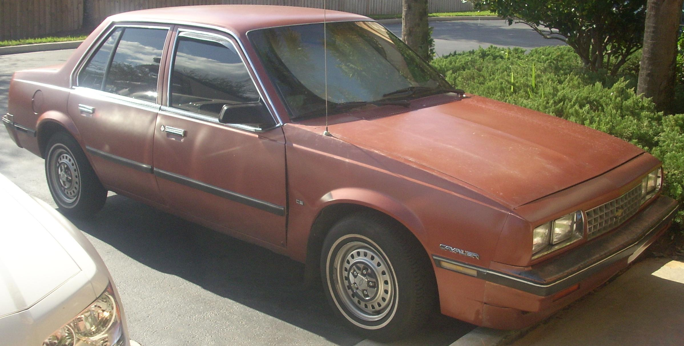 1984 Chevrolet Cavalier photographed in Orlando, Florida, USA.